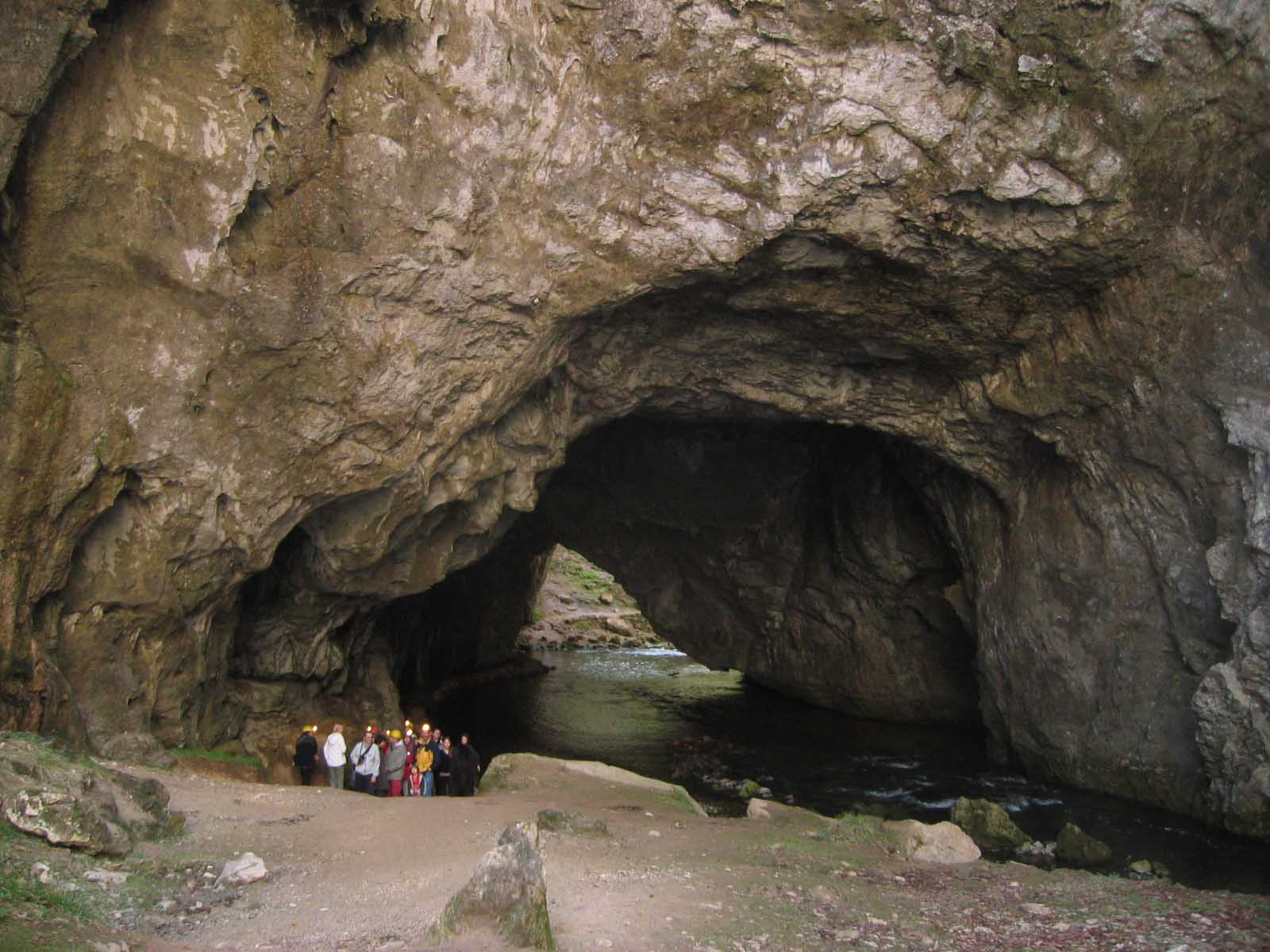 Natural park in Slovenia, guided tour to Zelška jama. Karst river with Karst spring, collapsed in large Ponors in Inner Carniola. photo:Ziga 18:46, 7 April 2007 (UTC)